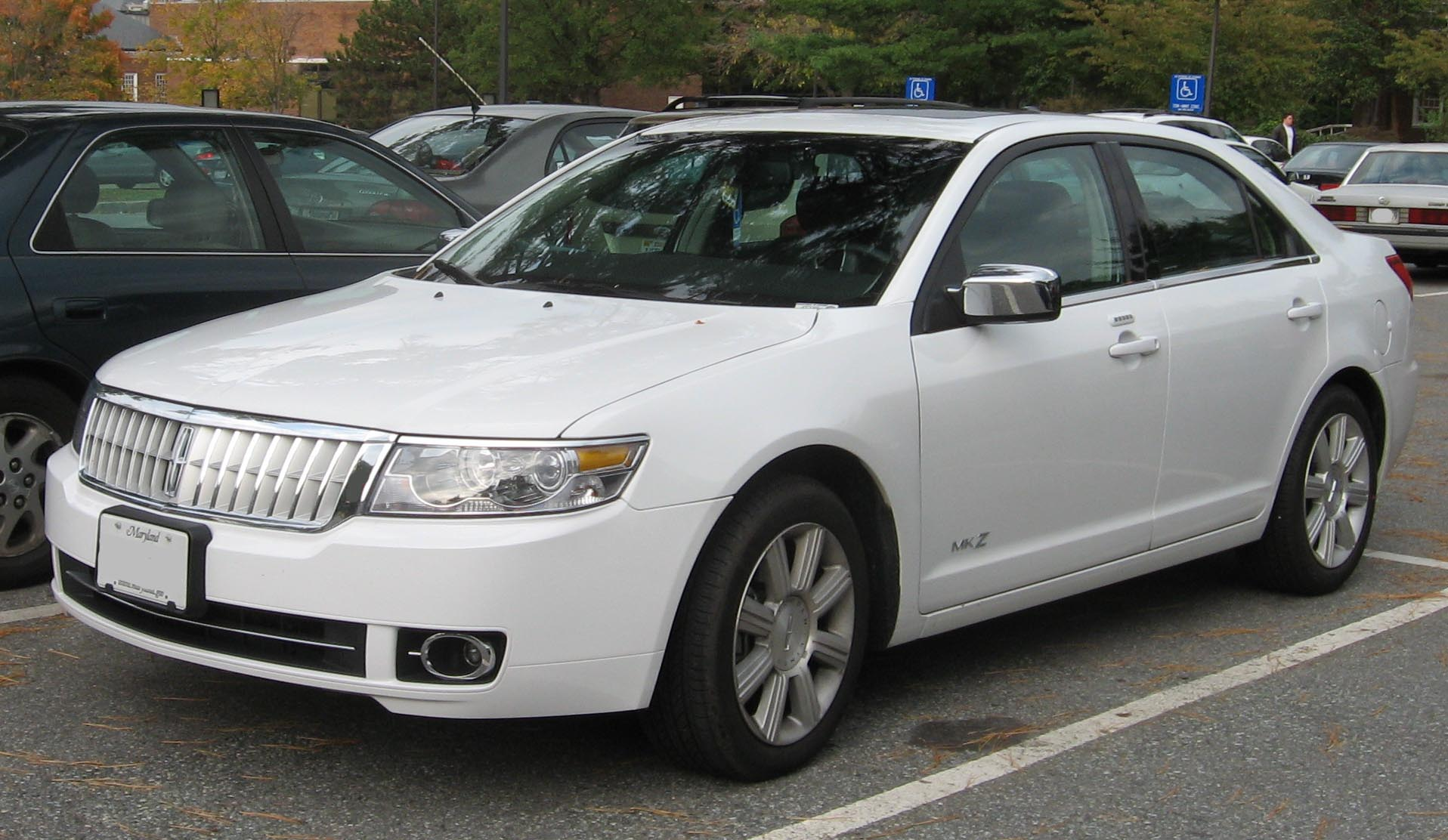 2007-2008 Lincoln MKZ photographed in College Park, Maryland, USA.